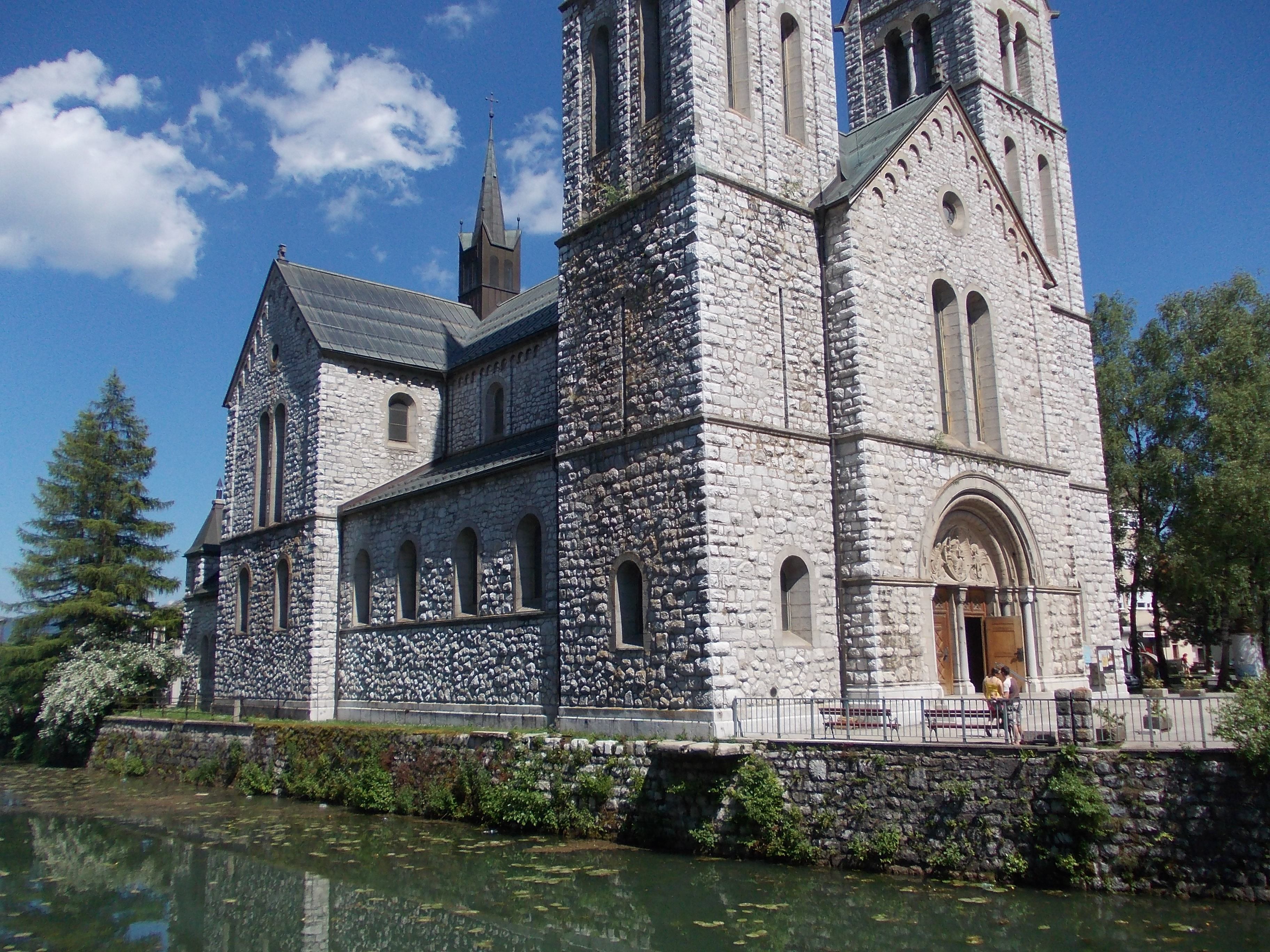 Saint Bartholomew Church, Kočevje